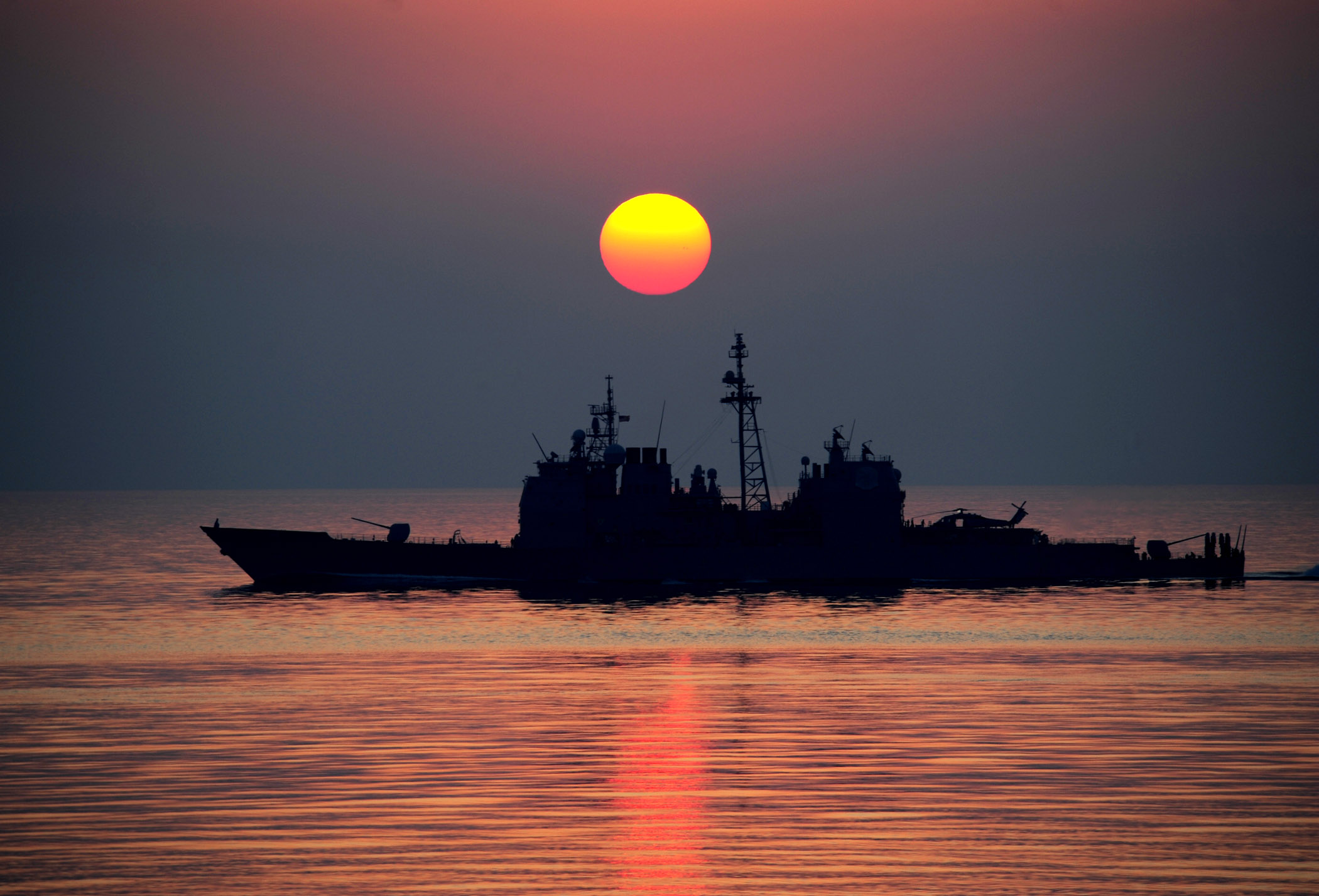 ARABIAN GULF (Sept. 20, 2011) The Ticonderoga-class guided-missile cruiser USS Mobile Bay (CG 53) transits the Arabian Gulf. Mobile Bay is deployed to the U.S. 5th Fleet area of responsibility conducting maritime security operations and support missions as part of Operations Enduring Freedom and New Dawn. (U.S. Navy photo by Mass Communication Specialist 2nd Class Walter M. Wayman/Released)